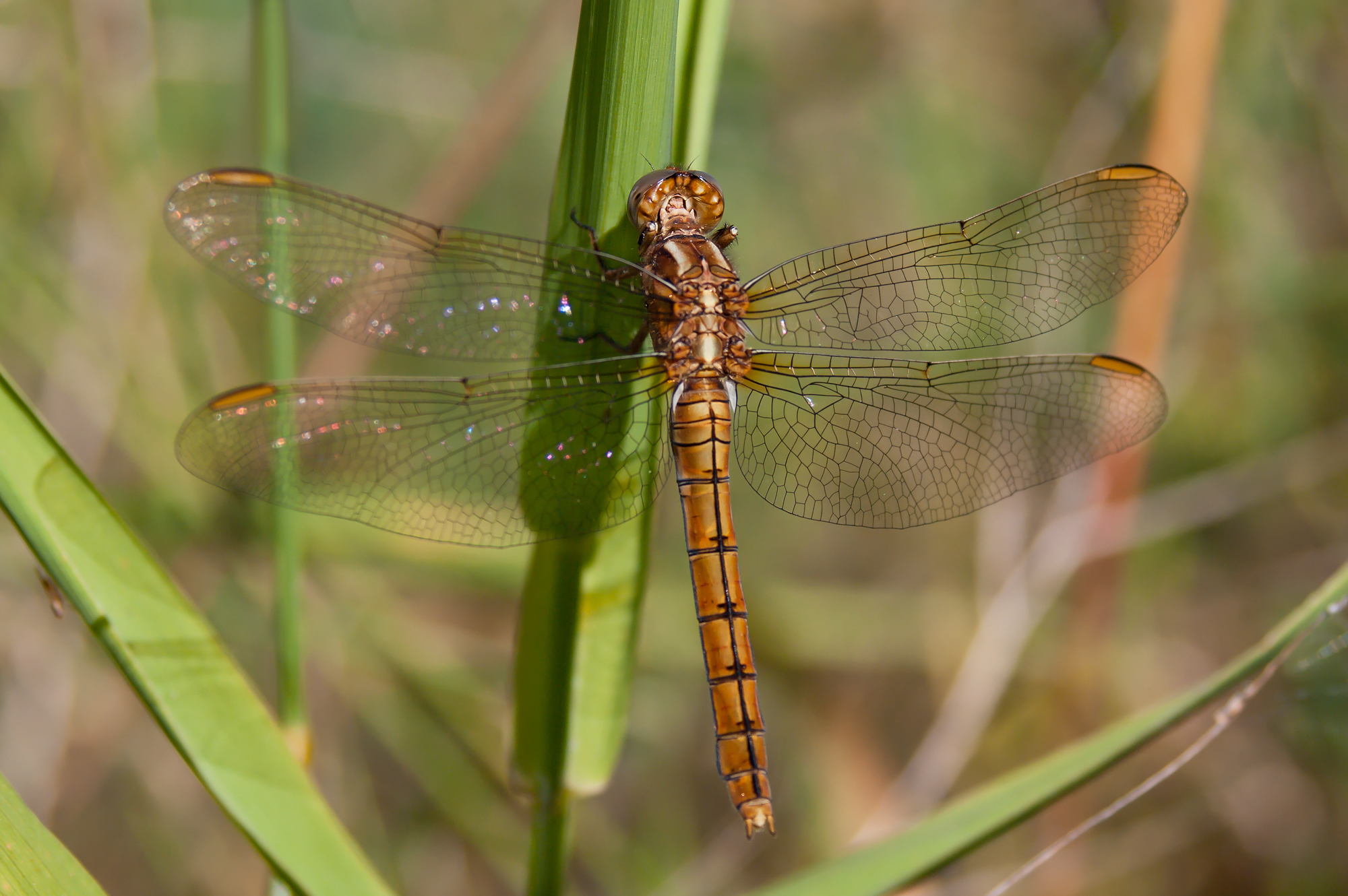 The dragonfly Keeled Skimmer (Orthetrum coerulescens) – young female specimen resting far away from any water habitat.